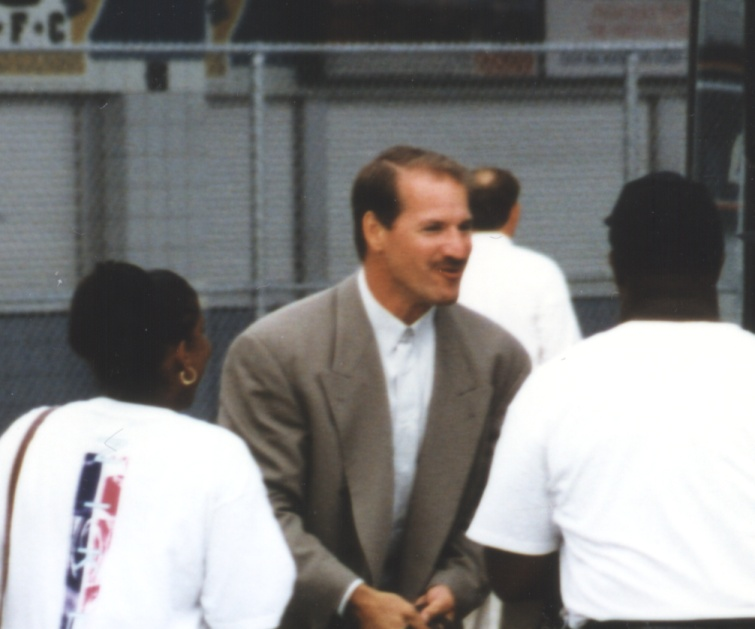 Bill Cowher talking to fans just prior to boarding a bus after a 9 to 24 loss at Alltel Stadium, Jacksonville, Florida, September 1, 1996.